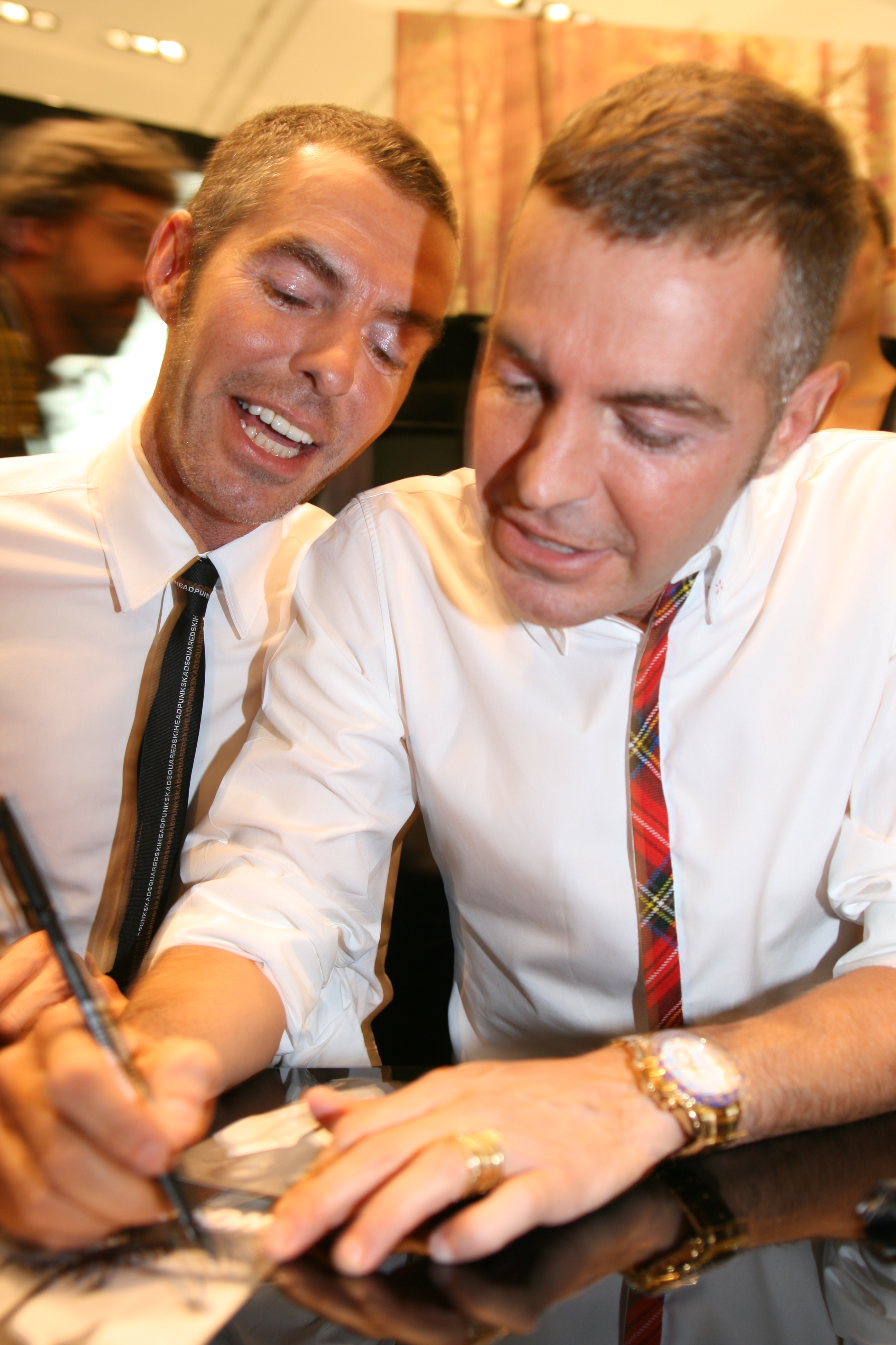 Dean and Dan Caten